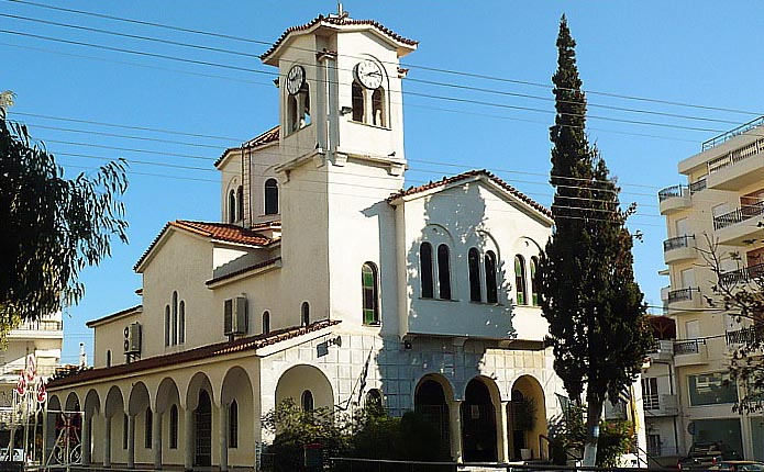 Saint Ioannis Church at Gerakas-Greece